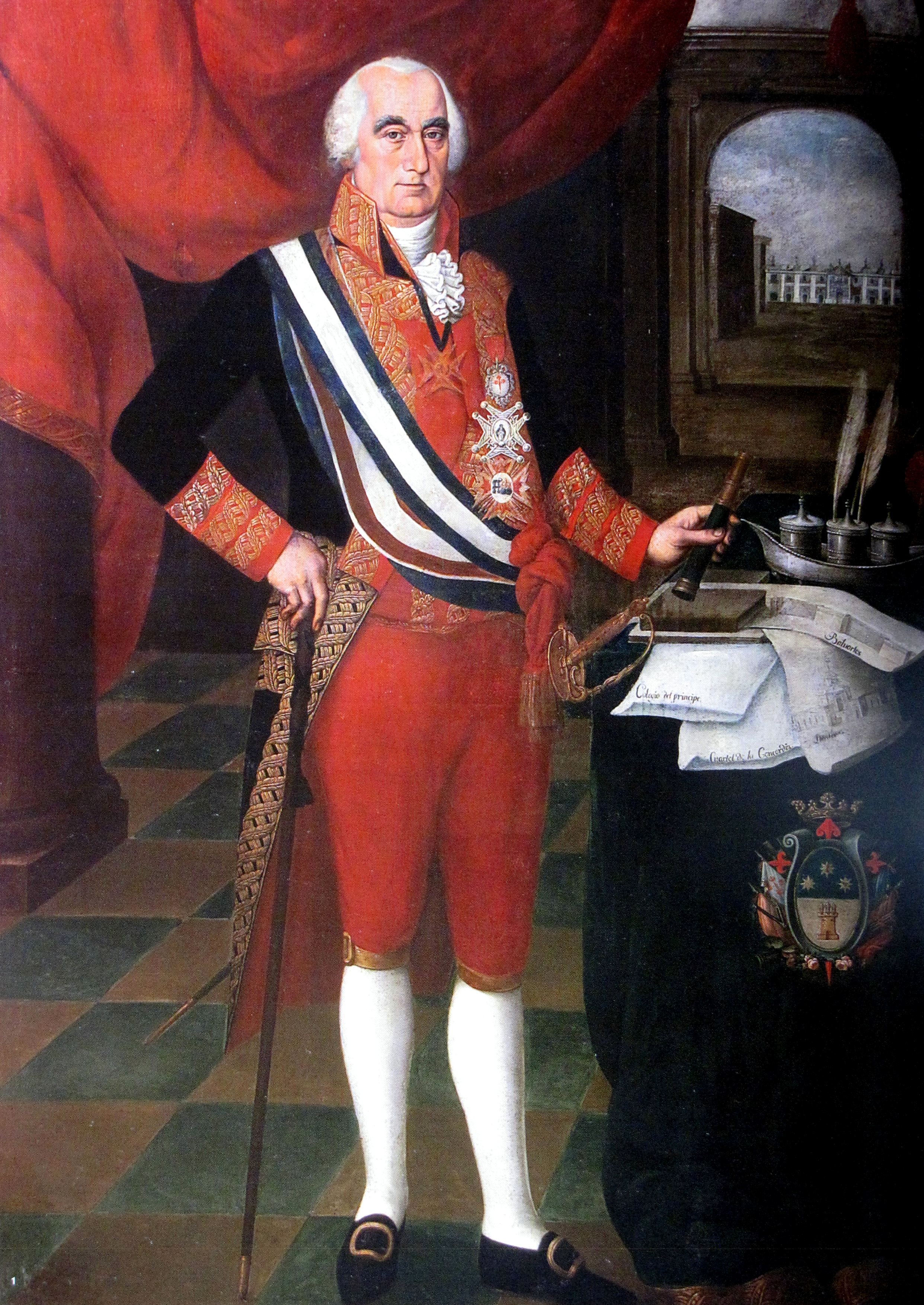 Virrey José Fernando de Abascal